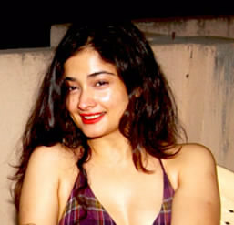 Kiran Rathod at Vikrum Kumar's Birthday Bash